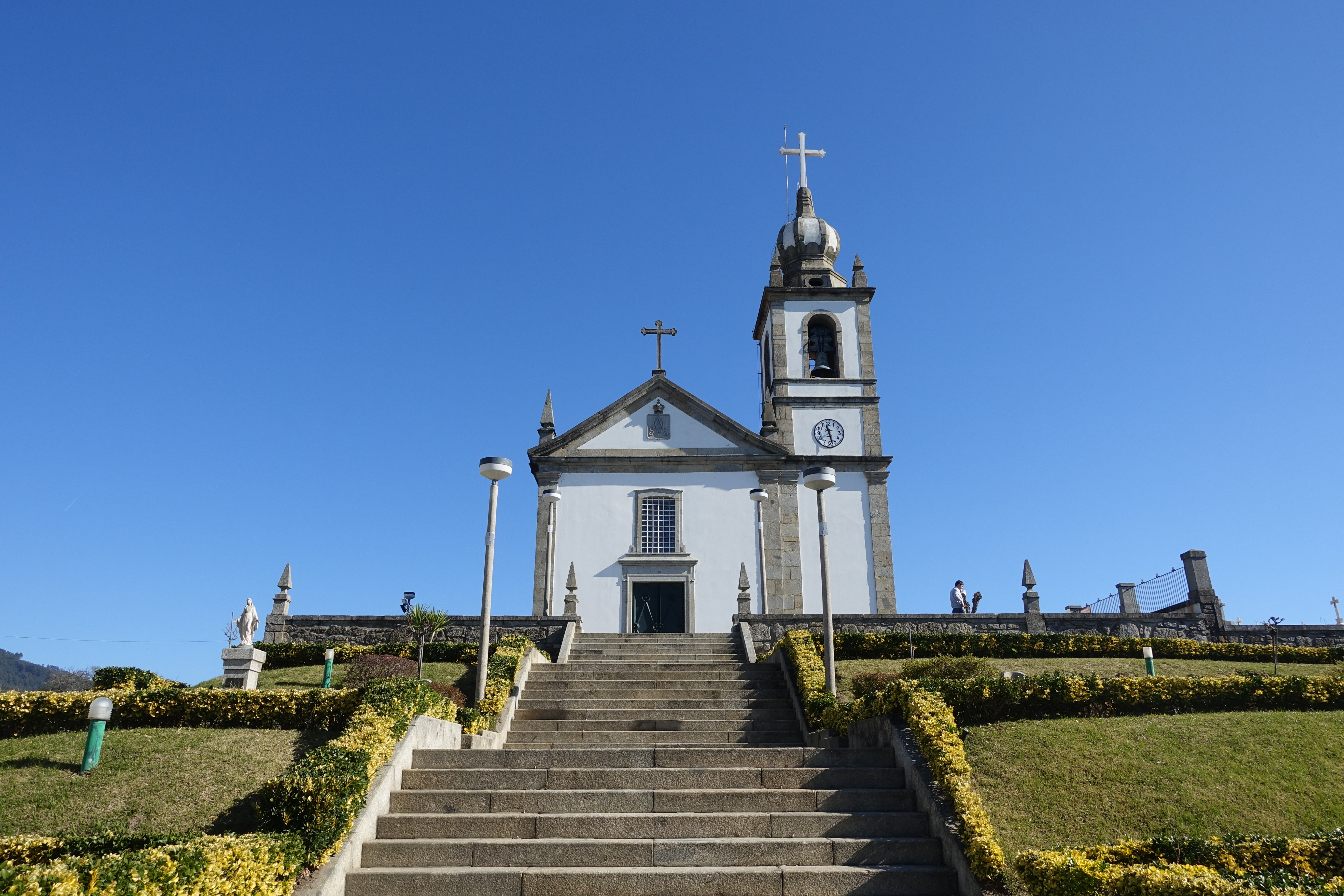 Amares, Portugal.